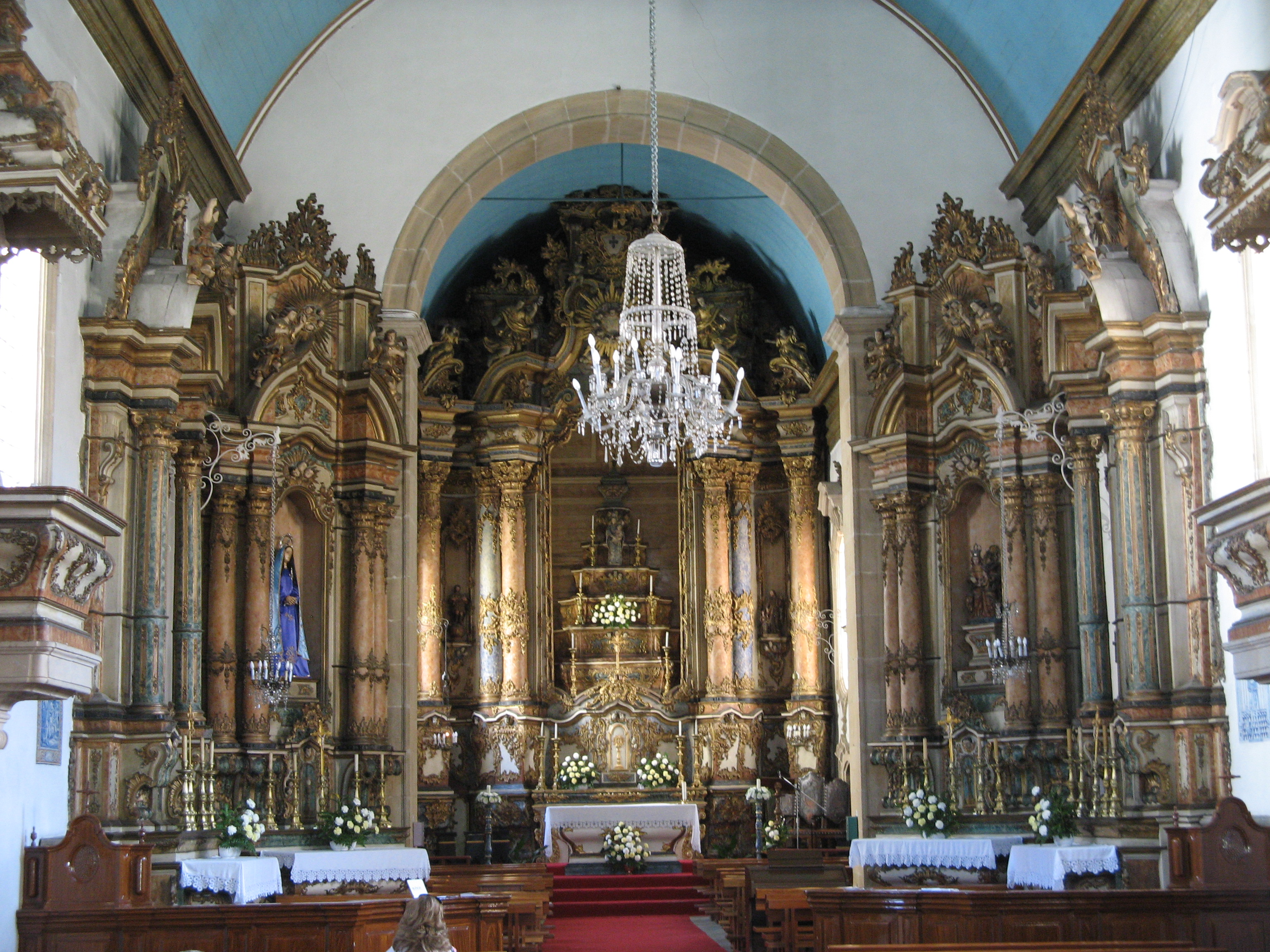 This file was uploaded for Wiki Loves Monuments in Portugal with the unique identifier 74992.